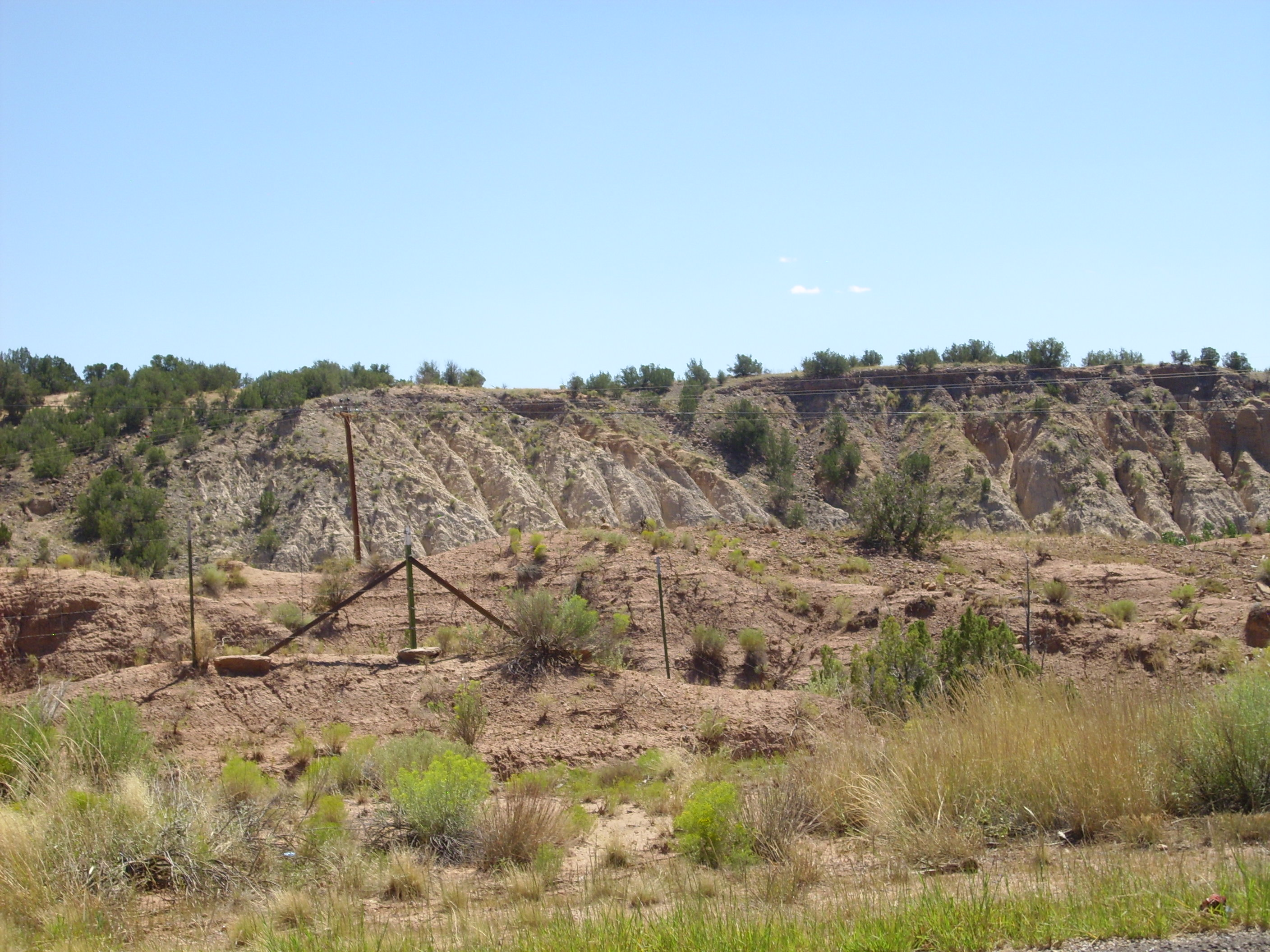 Outcrops of the Zia Formation in the southern Jemez Mountains, New Mexico, USA